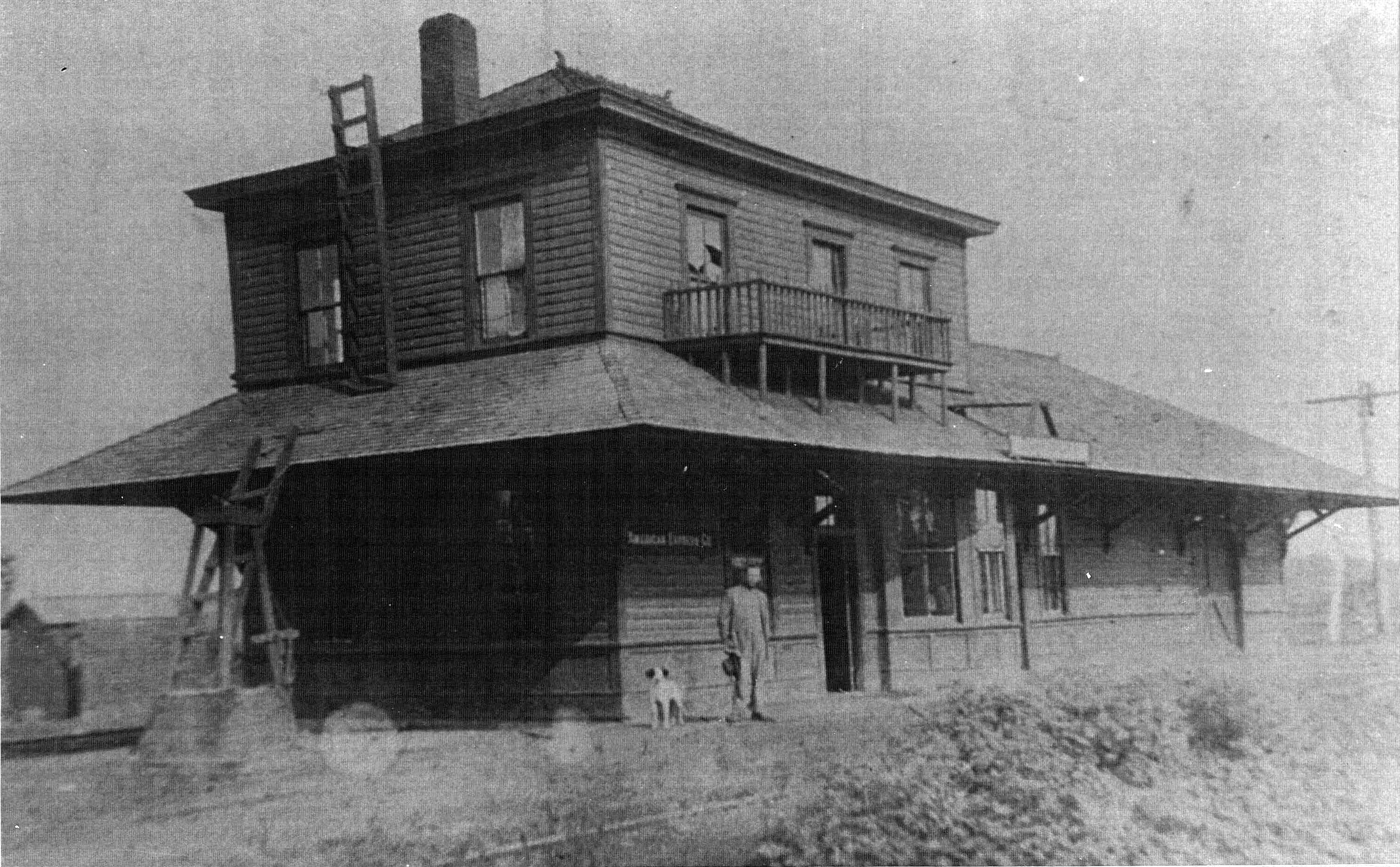 Rock Island Train Depot, Asher OK - 1902. The station was located at the west end of Main ST, west of what is now US 177. The Stationmaster, Bill Bailey, is pictured. On October 12, 1900, the Choctaw, Oklahoma and Gulf (CO&G)* bought the Shawnee to Tecumseh Railway branch from the Tecumseh Railway Co. and promptly extended the branch to Asher. For the next 40 years, Asher would serve as the termination point for the branch and its engine, "Old Beck." The CO&G was later taken over by Rock Island.